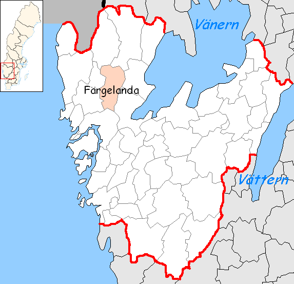 Färgelanda Municipality in Västra Götaland County Designed by me. Mere outlines are a PD source from